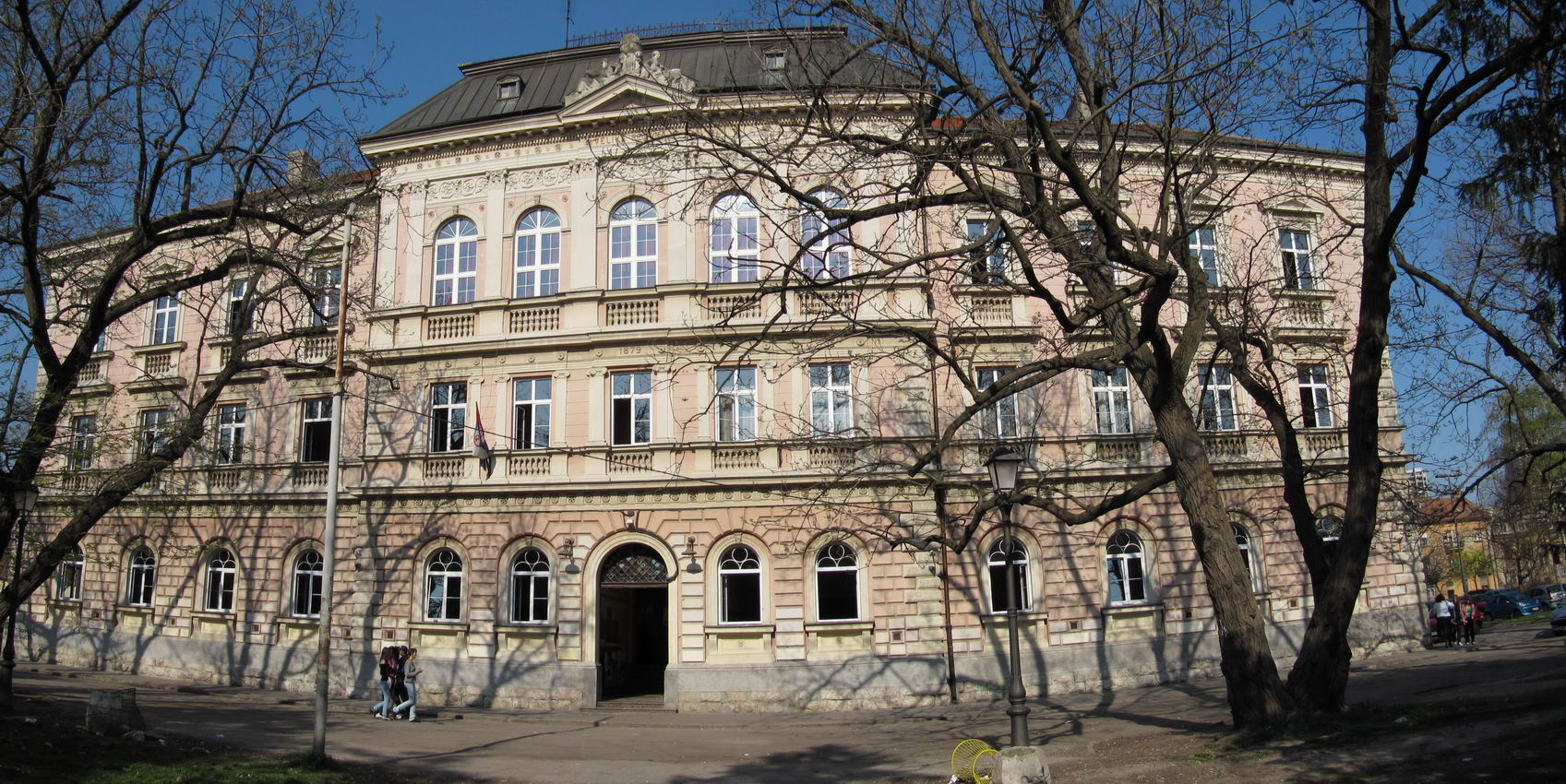 Secondary school in Zemun, Belgrad, Serbia